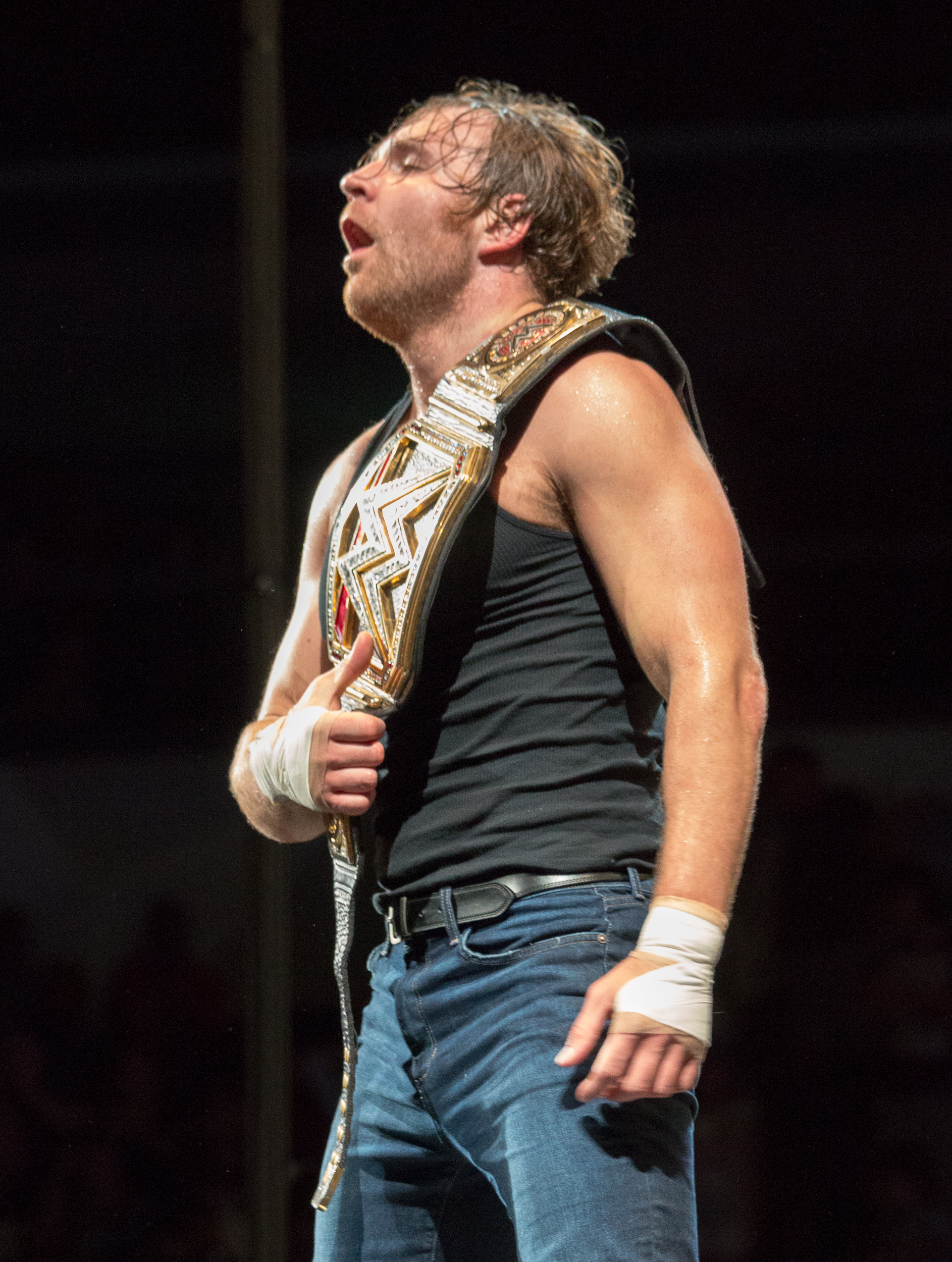 WWE world champion Dean Ambrose posing with the championship belt post-match